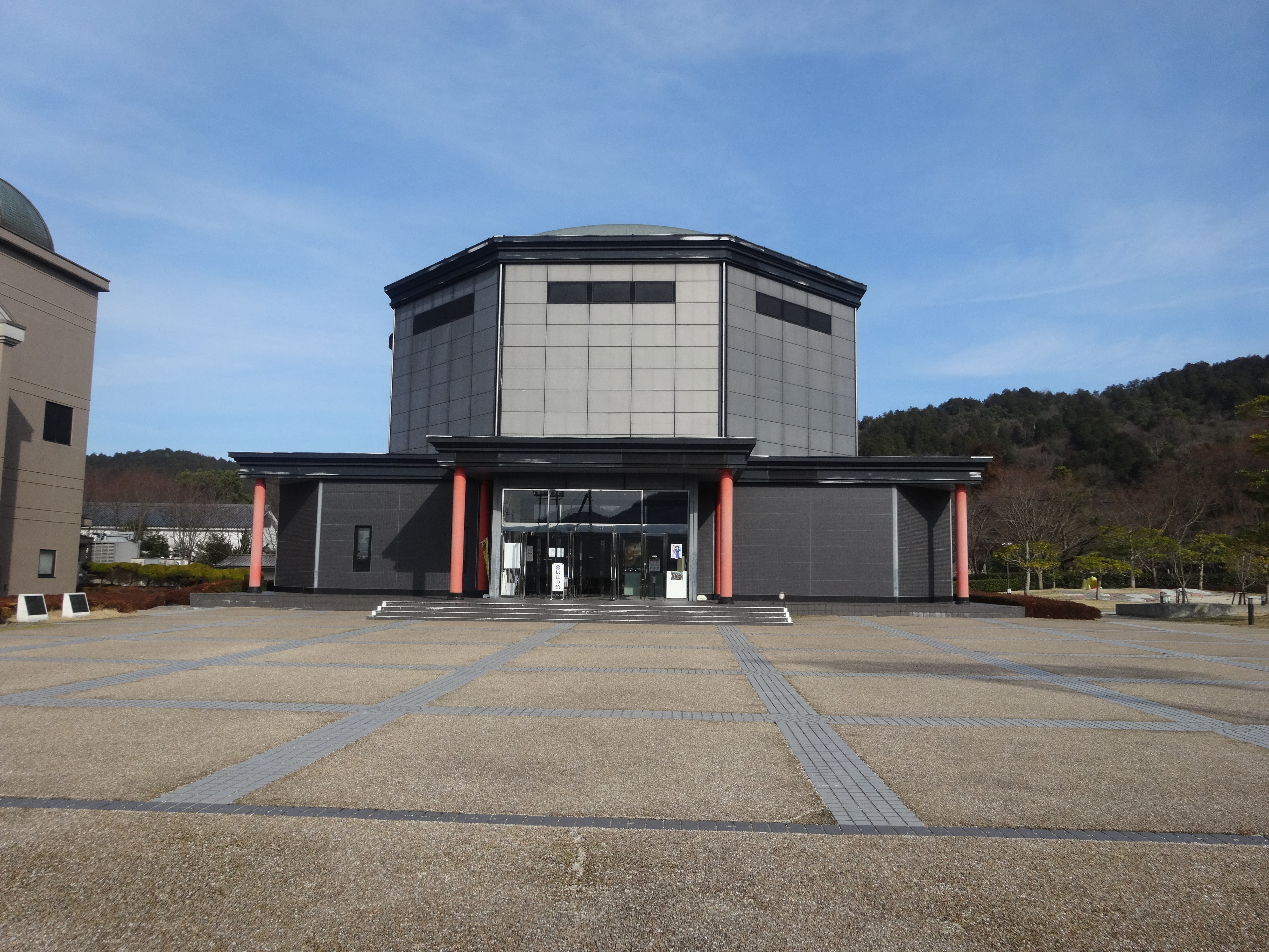 Nobunaga no yakata, museum which displays restoration of the keep tower of Azuchi castle/